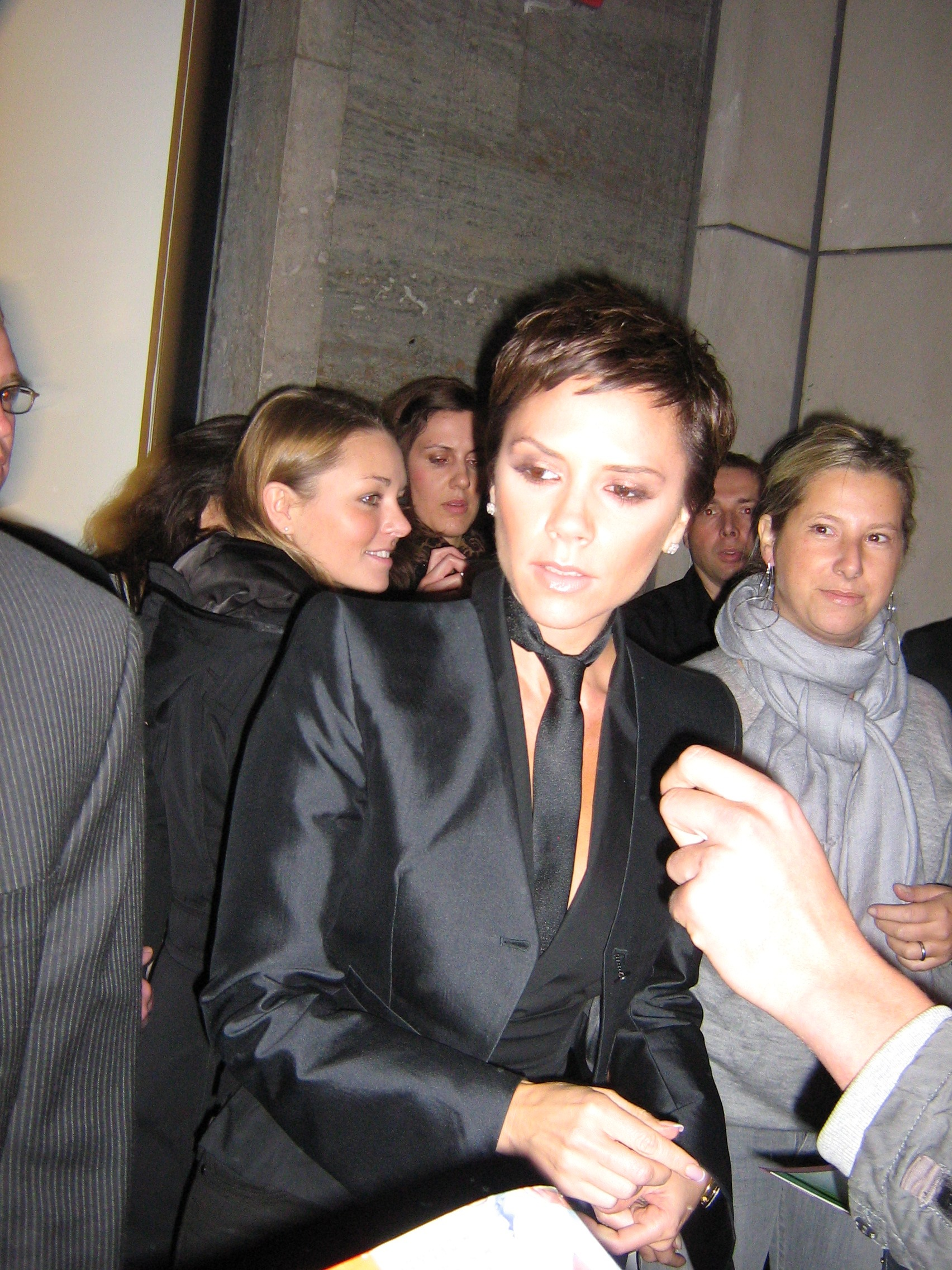 Victoria Beckham in Düsseldorf for promoting her new jeans